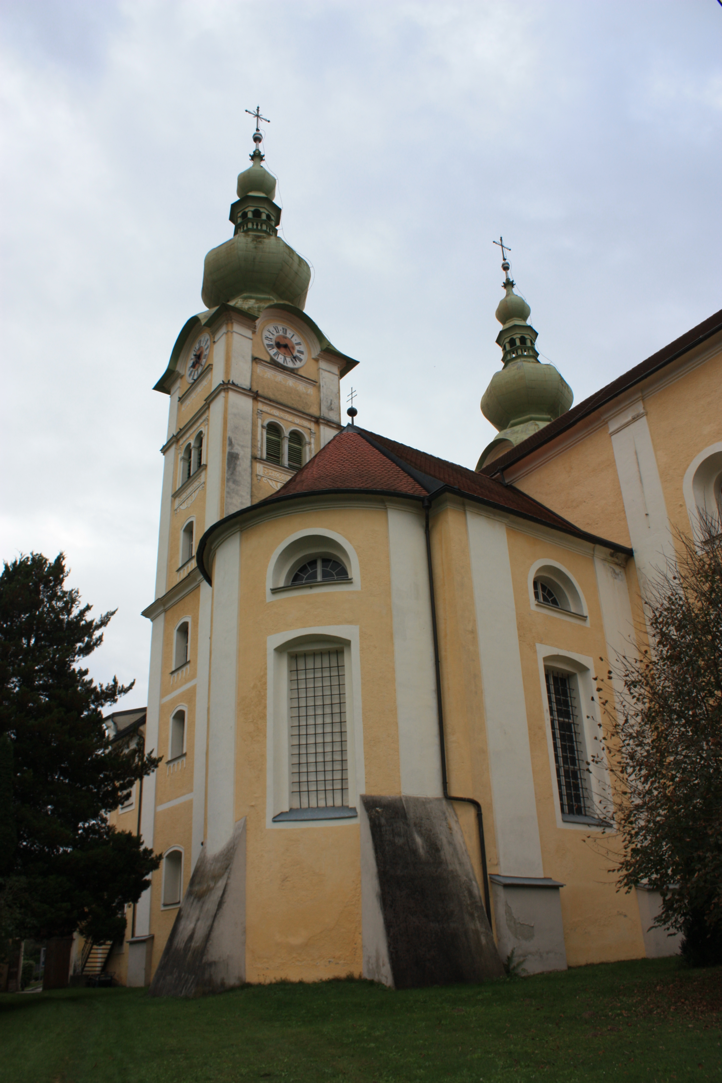 Pilgim church Maria Loreto Locality: Sankt Andrä Community:Sankt Andrä